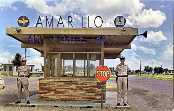 Amarillo Air Force Base - Front Gate - Postcard